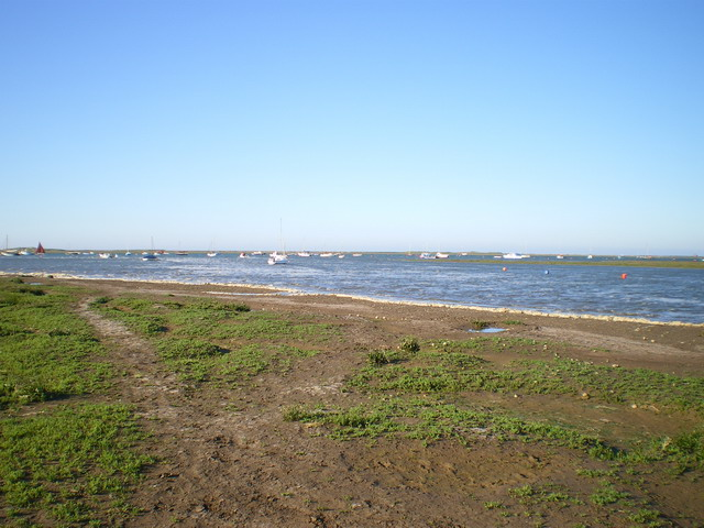 Northern edge of Morston Salt Marsh Looking across the mouth of Morston Creek, into Blakeney Harbour. The ground here is a mass of Marsh Samphire (also known as Glasswort, Salicornia europaea). This flourishes where the tide covers it twice a day, and is delicious with fish dishes.